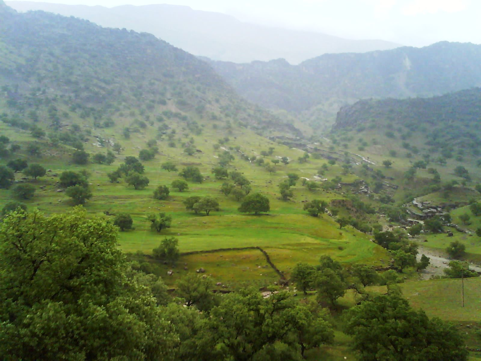 Barabar village